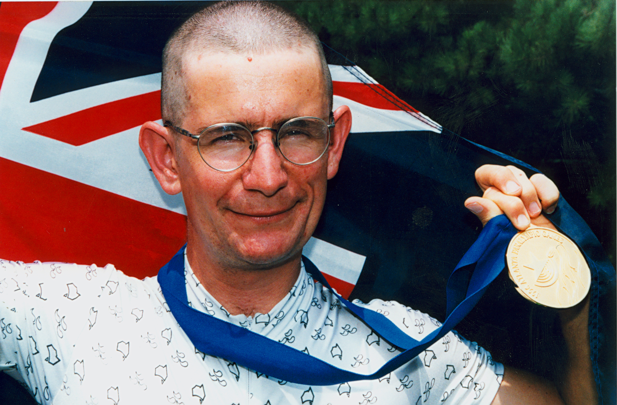 Australian Para-cyclist Chris Scott at the Atlanta 1996 Paralympic Games.